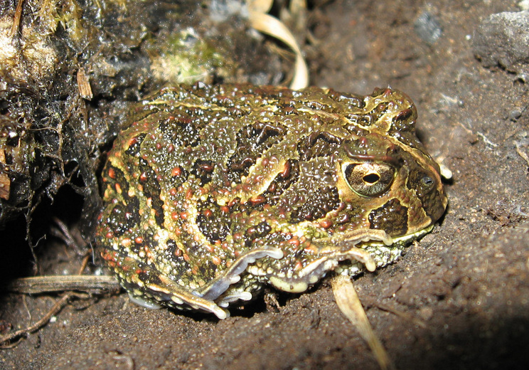 Odontophrynus americanus